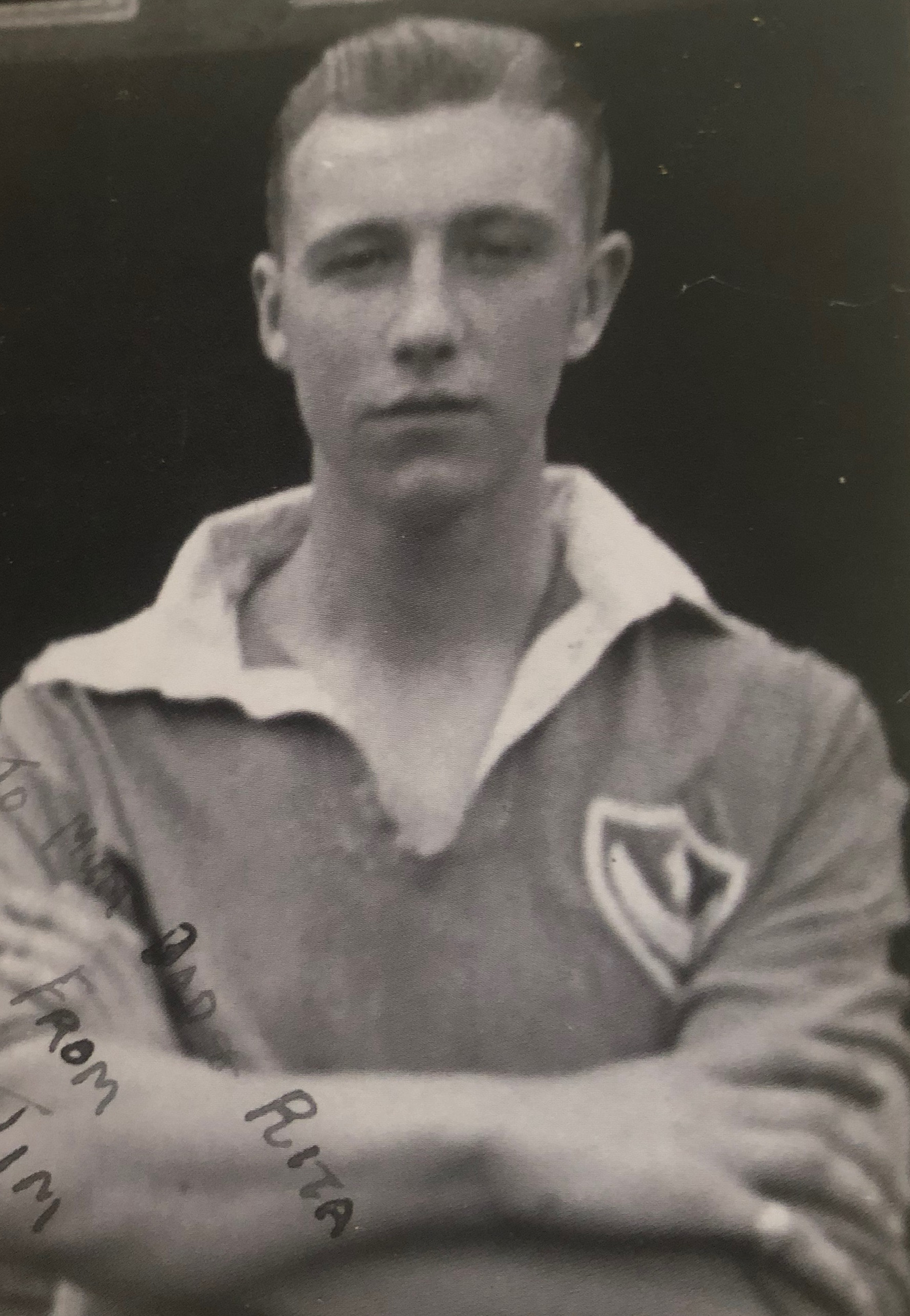 Jimmy Elder this picture was one he sent back home to his family in Scotland.